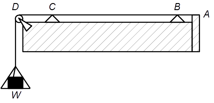 Monochord, after Sir James Jeans (1937). Science and Music, p.62 fig.22. A = wire's end, tied tightly, B= moveable bridge (to test length), C= moveable bridge (to test length), D= a freely turning wheel, and W= suspended weight (to test tension).